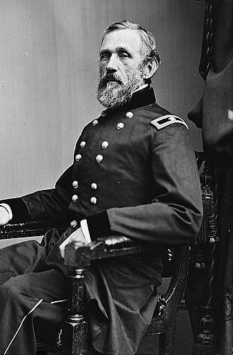 Portrait of Brig. Gen. John G. Barnard, officer of the Federal Army.